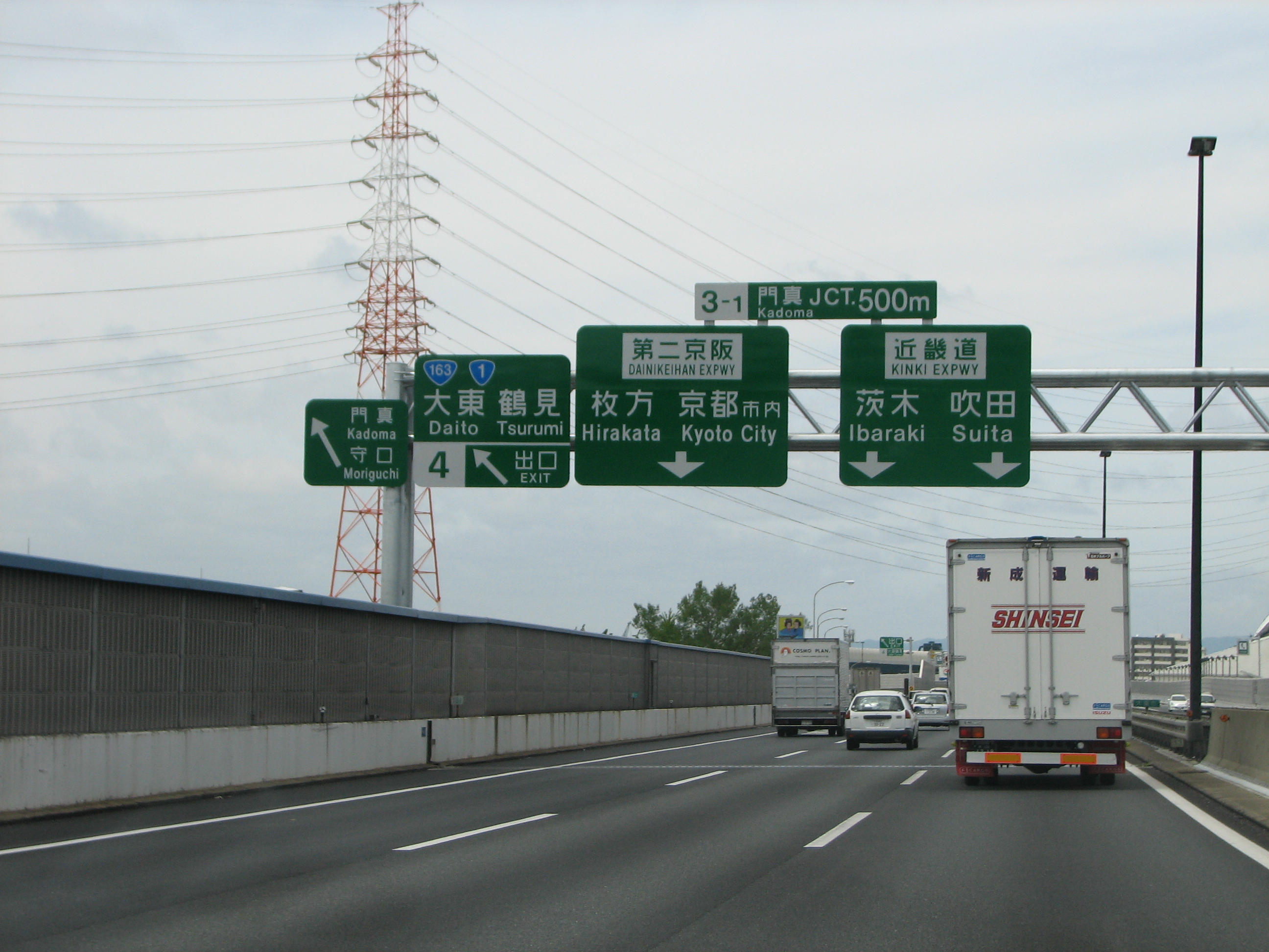 Daitō-Tsurumi IC